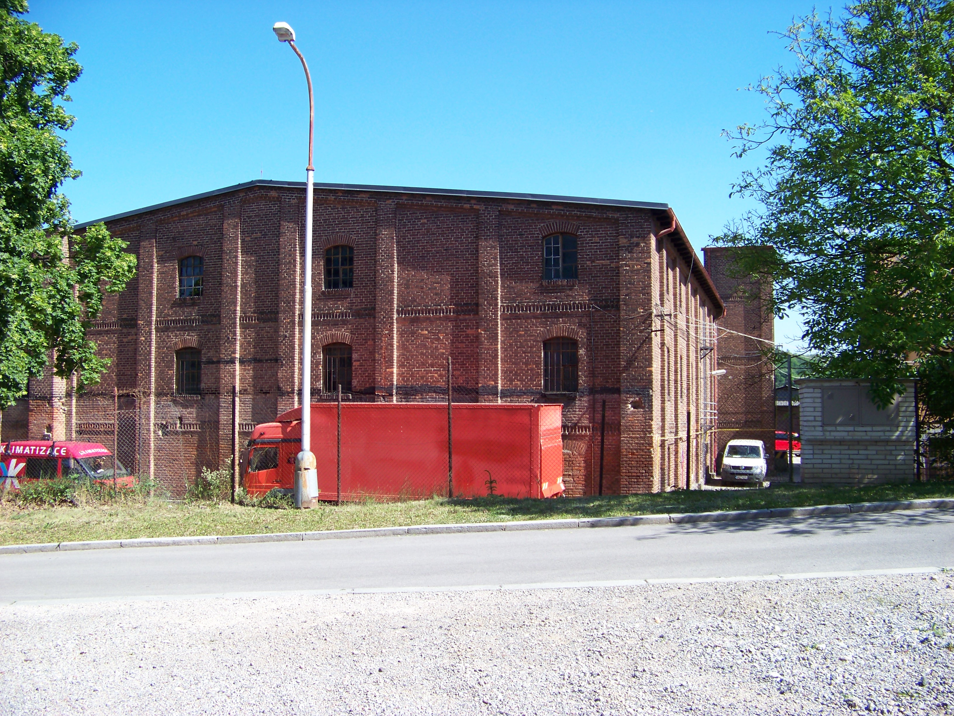 Prague-Sedlec, the Czech Republic. Přerušená street, industry buildings.